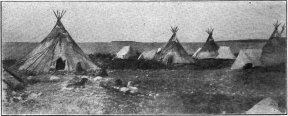 Original caption: "Tepees of the Dogrib Indians on the shores of Slave Lake at Fort Resolution, N.W. Territory." The Dogrib are now known as Tłı̨chǫ or Tåîchô.